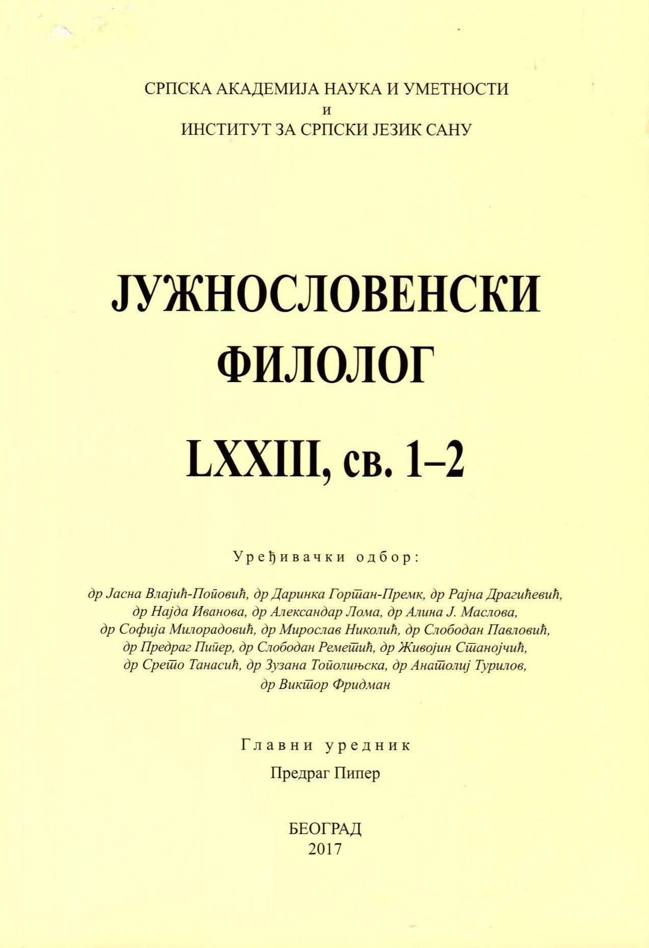 Cover of Serbian scientific journals Južnoslovenski filolog, 2017.